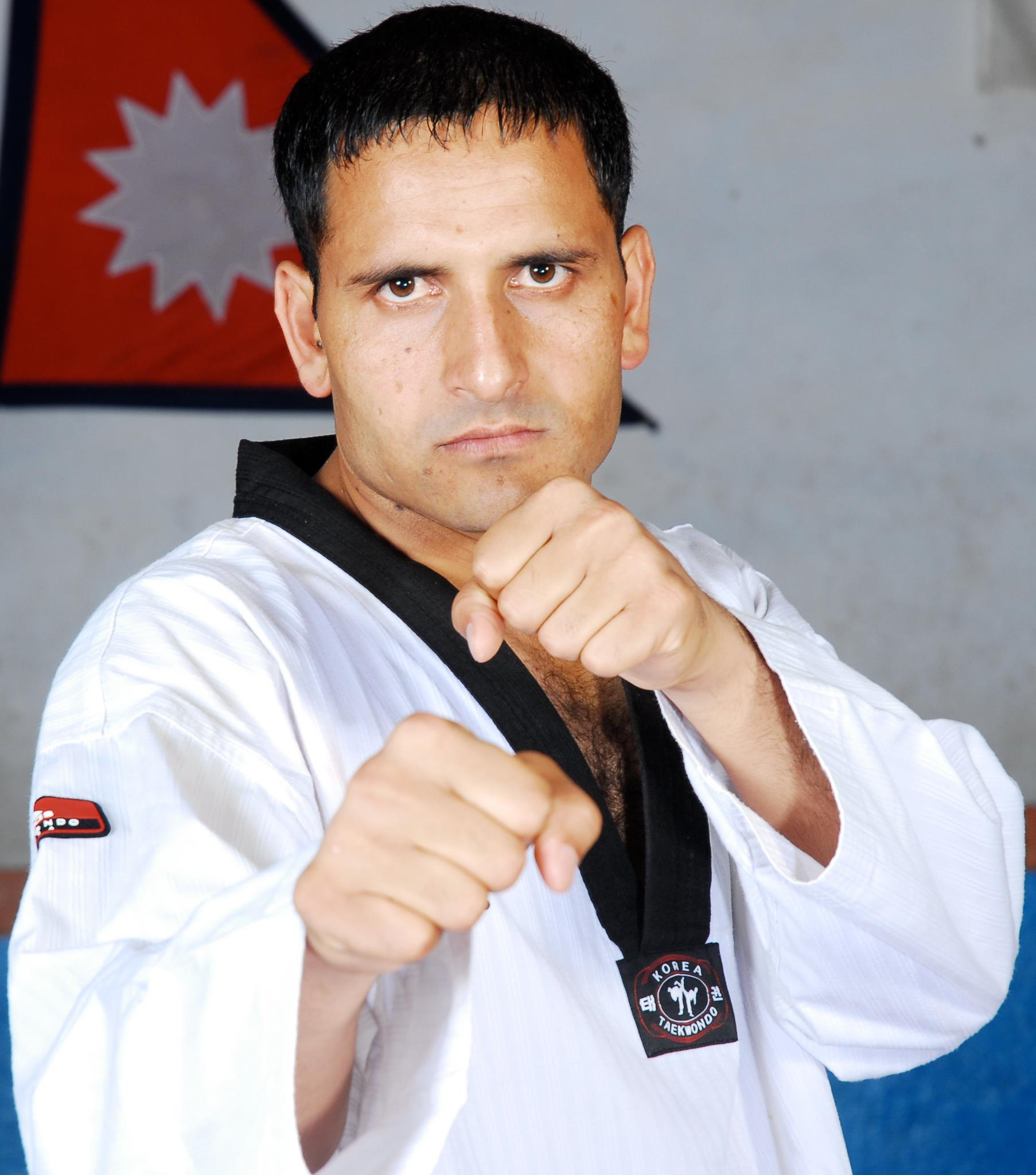 Dipak Bista